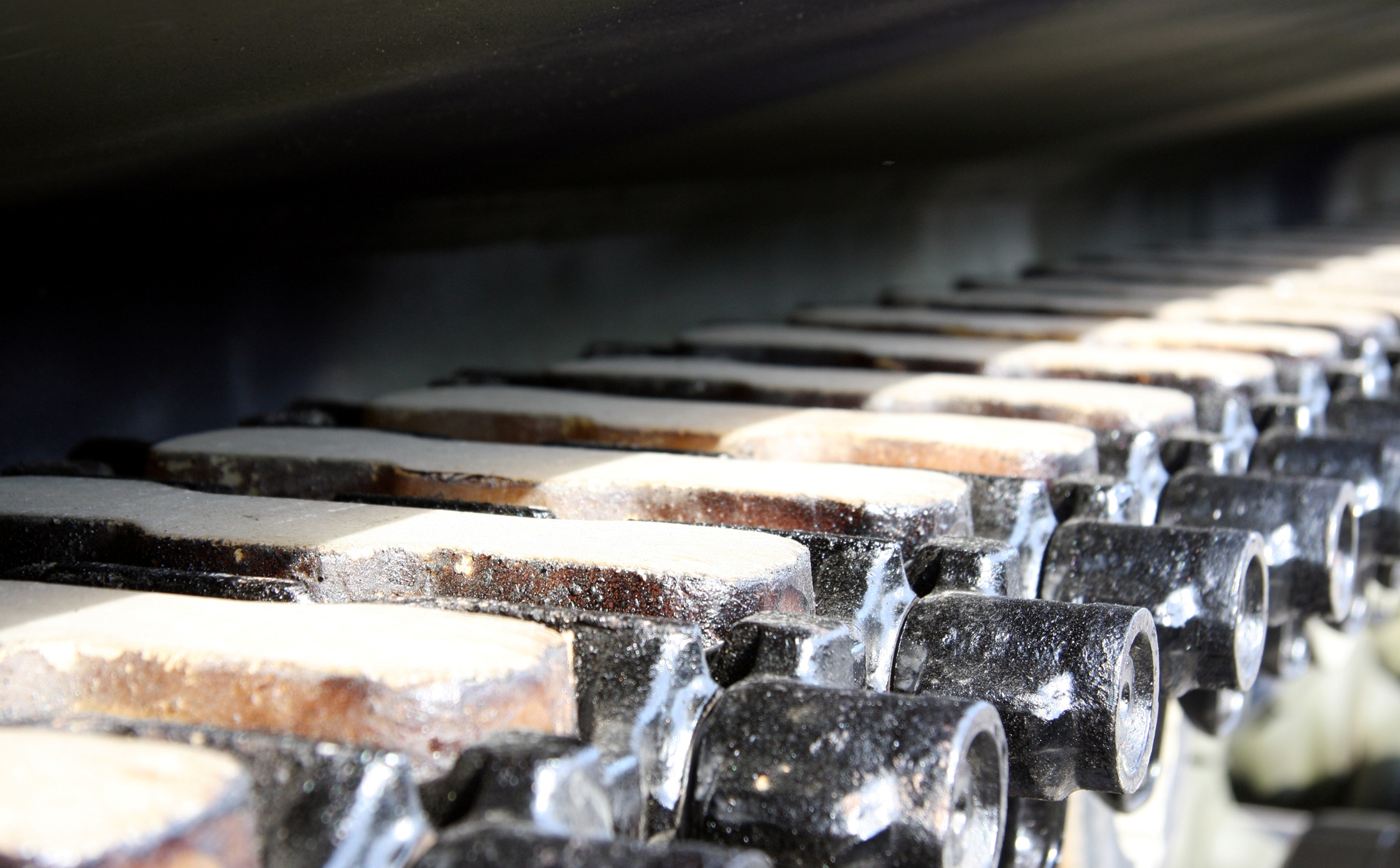 The Ministry of Defence of Russia exposition in open access. On display are among others a T-90S and a T-80U tank.